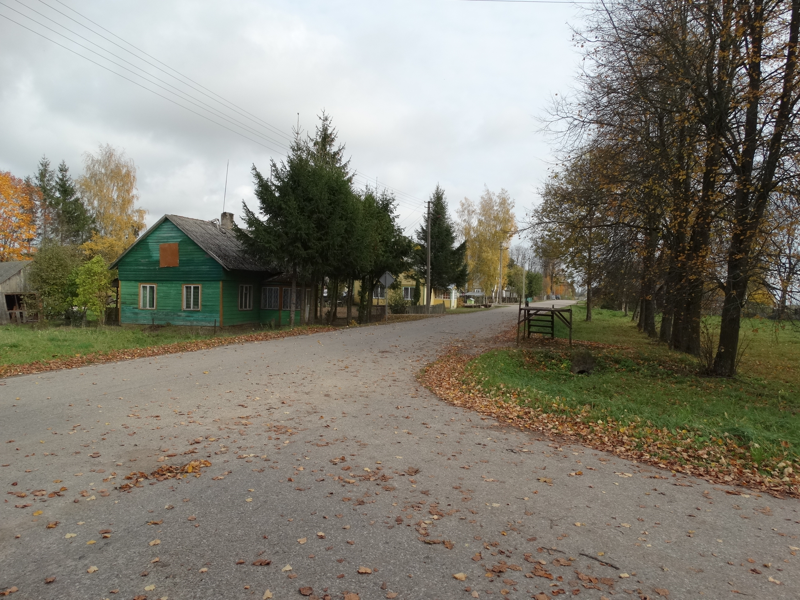 Valakbūdis, Šakiai District, Lithuania